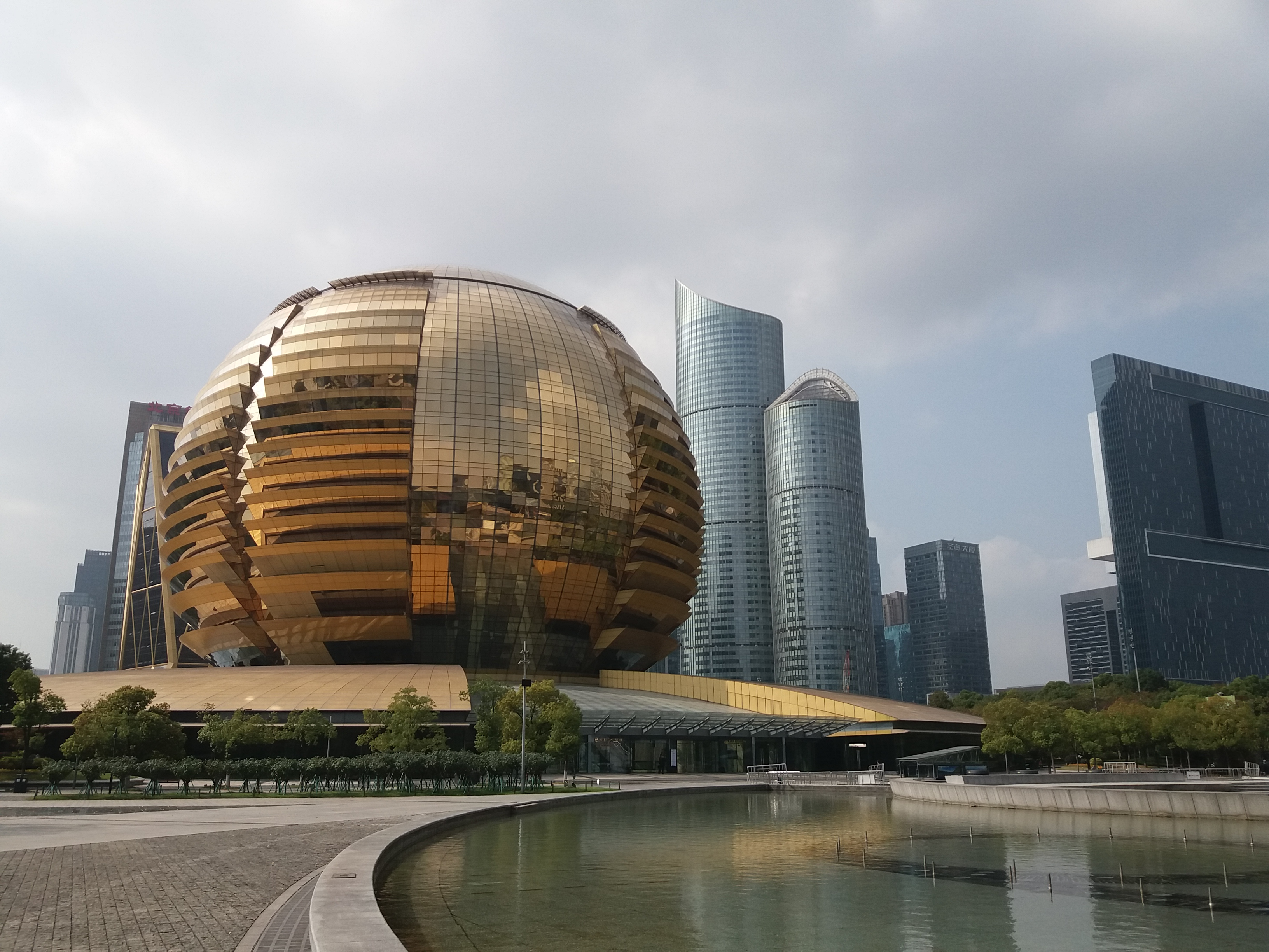 Hangzhou International Conference Center